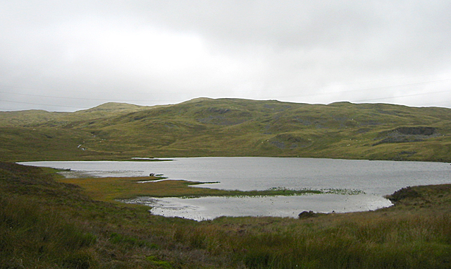 Llyn Conglog-mawr. Llyn Conglog-mawr lies in a bleak region of grassland, made even bleaker by the power lines that can just be seen above the skyline.